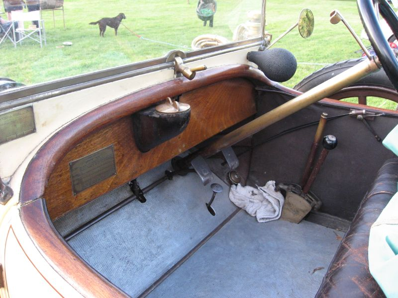 1915 Belsize 3-seater with dickey Veteran Car Club of Great Britain Young Persons Rally, Devizes